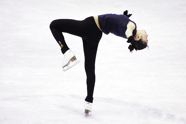 Kim performs her signature Bent-leg layover/Yu-na spin at 2008 GPF.(This is own picture)